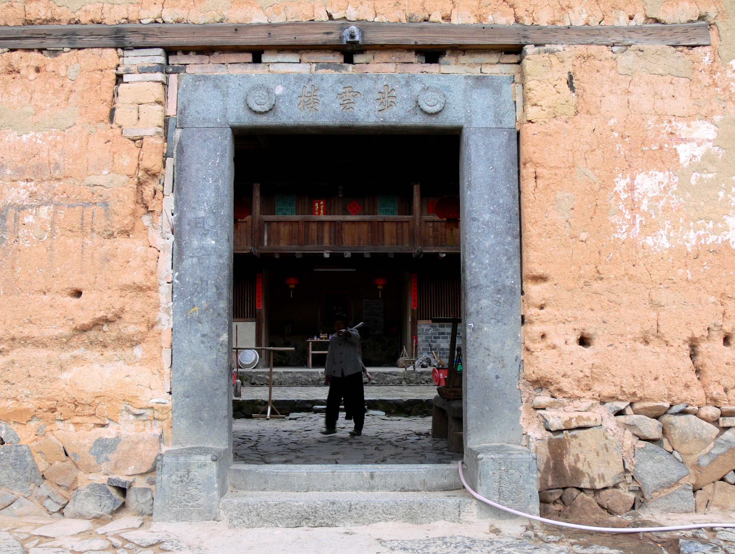 Entrance to the Buyun earth building 田螺坑土楼步云楼大门